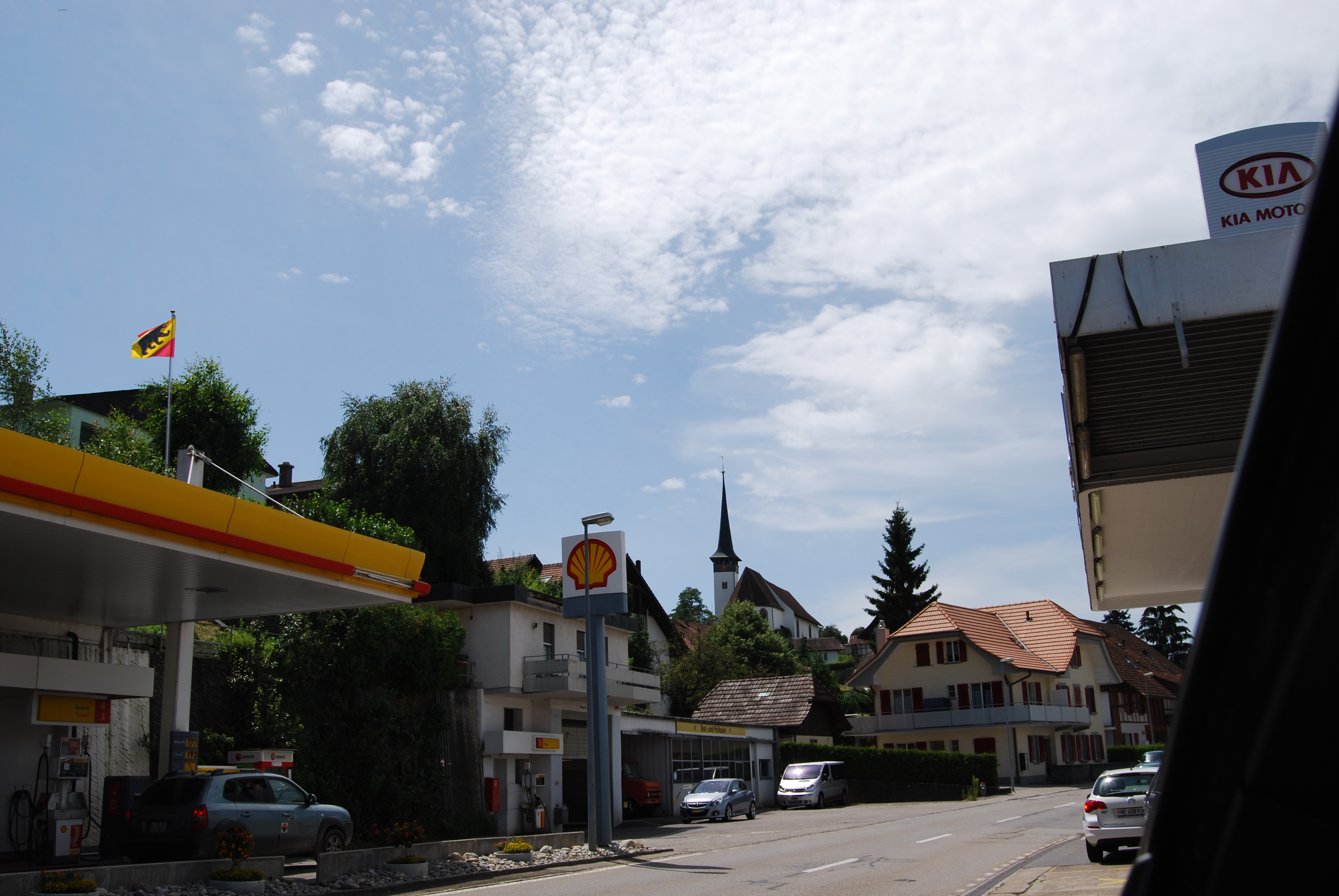 Mühleberg, canton of Bern, SwitzerlandEsperanto: Mühleberg, Kantono Berno, Svislando